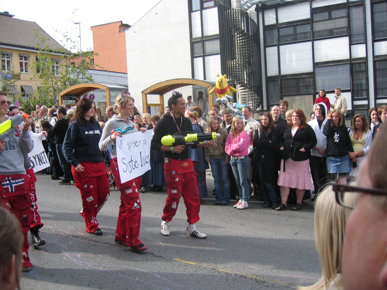 Russ in Hamar, Norway.